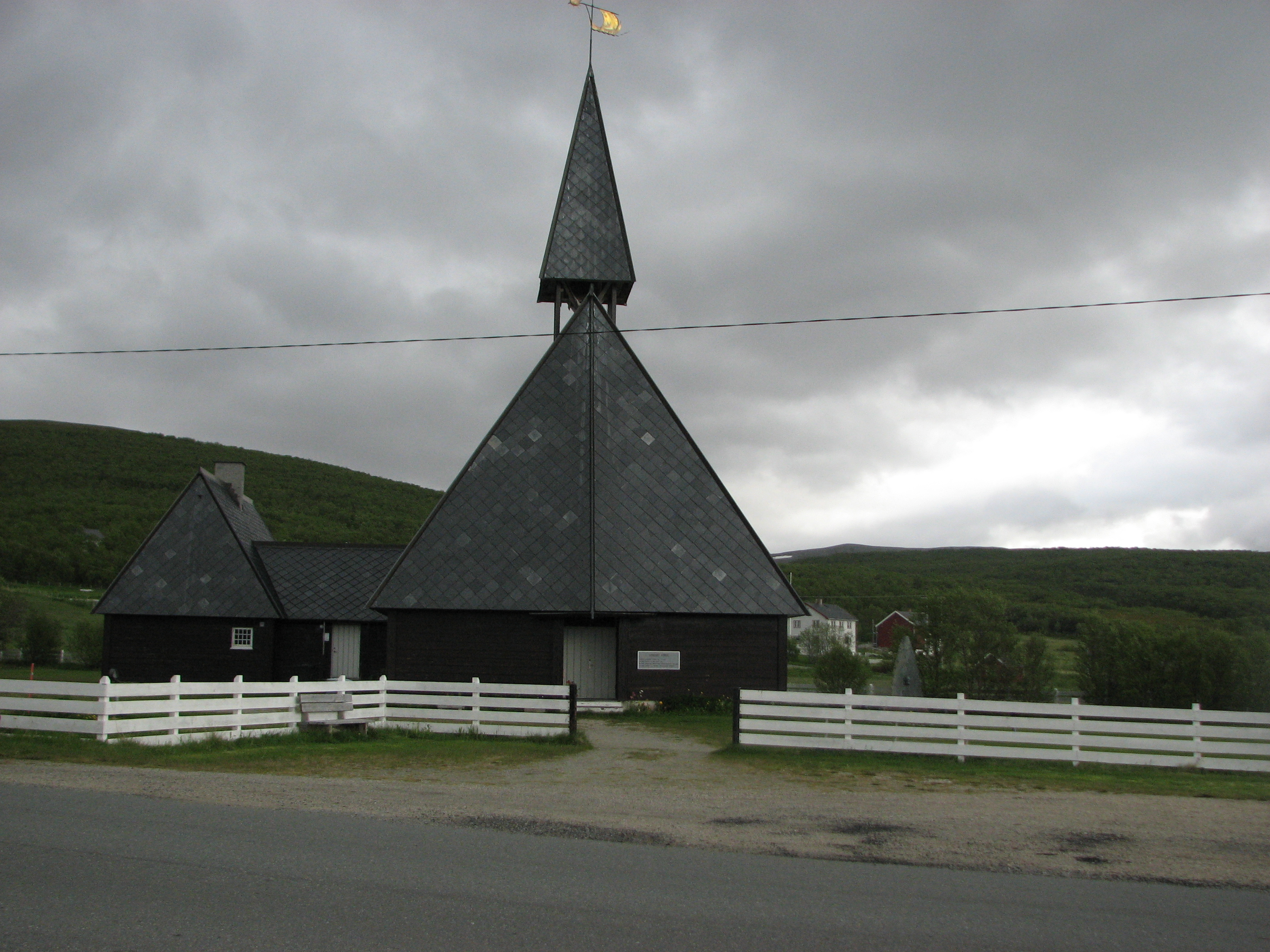 Lebesby church, Lebesby municipality, Norway